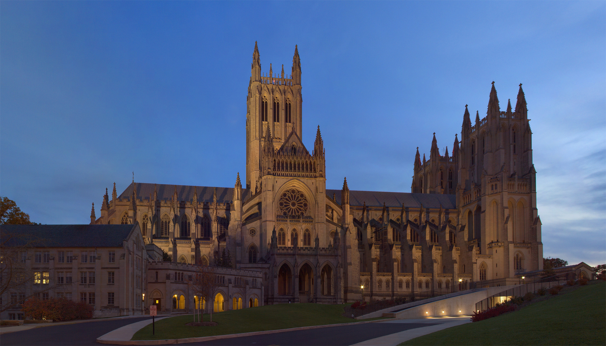 Washington National Cathedral - twilight, north facade